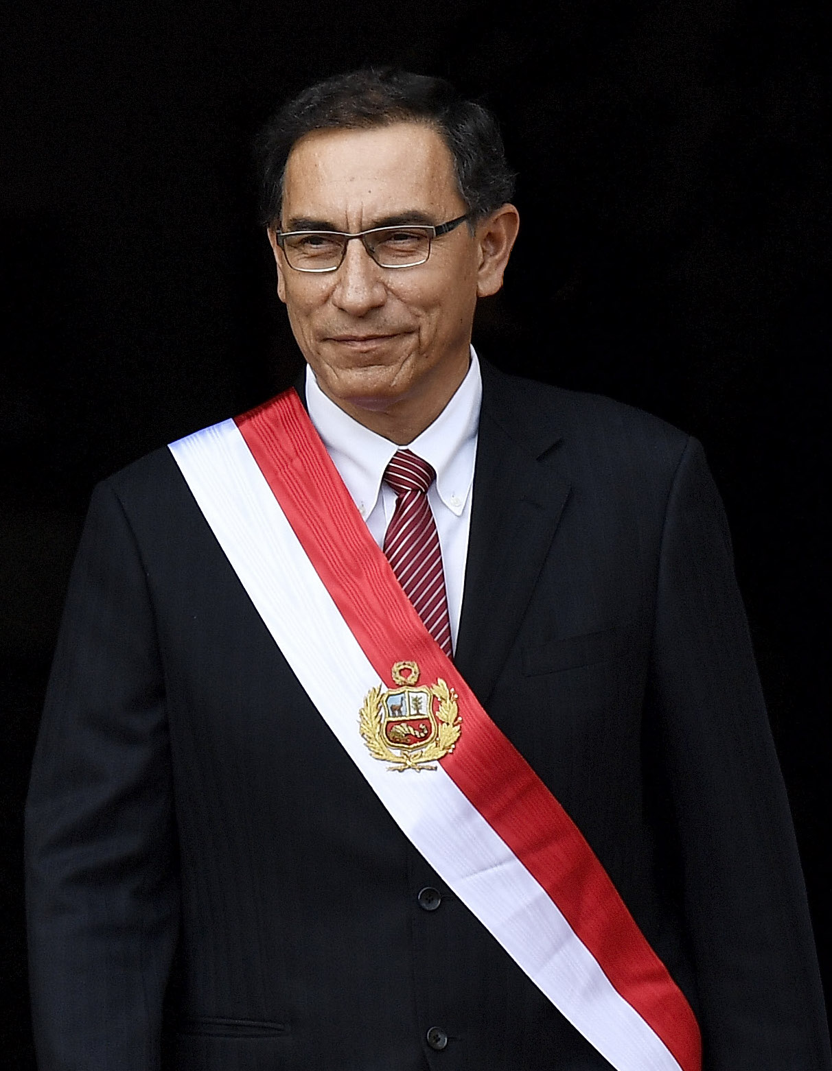 Cropped from a picture of Martín Vizcarra in an official ceremony (2018)